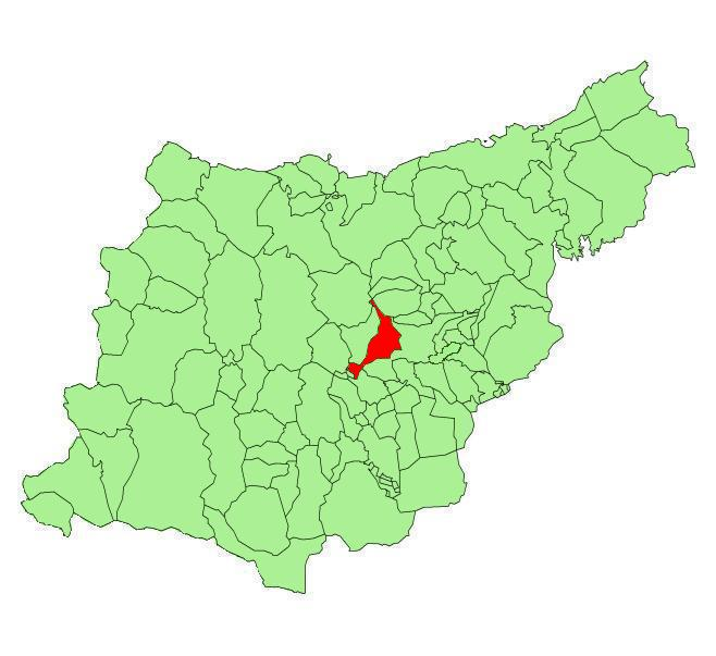 Albiztur municipality in the province of Guipuzcoa